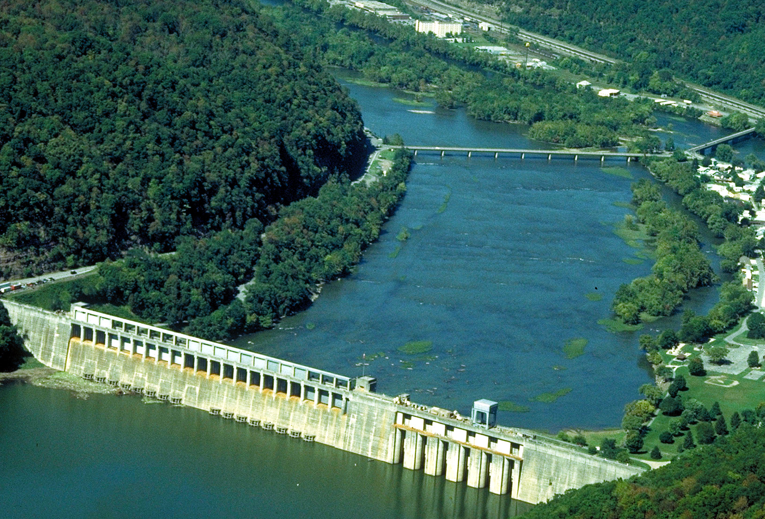 Bluestone Dam on the New River in Summers County, West Virginia, USA. The dam impounds Bluestone Lake. Below the dam is the community of Bellepoint, West Virginia. West Virginia State Route 3 crosses the river on a bridge below the dam.